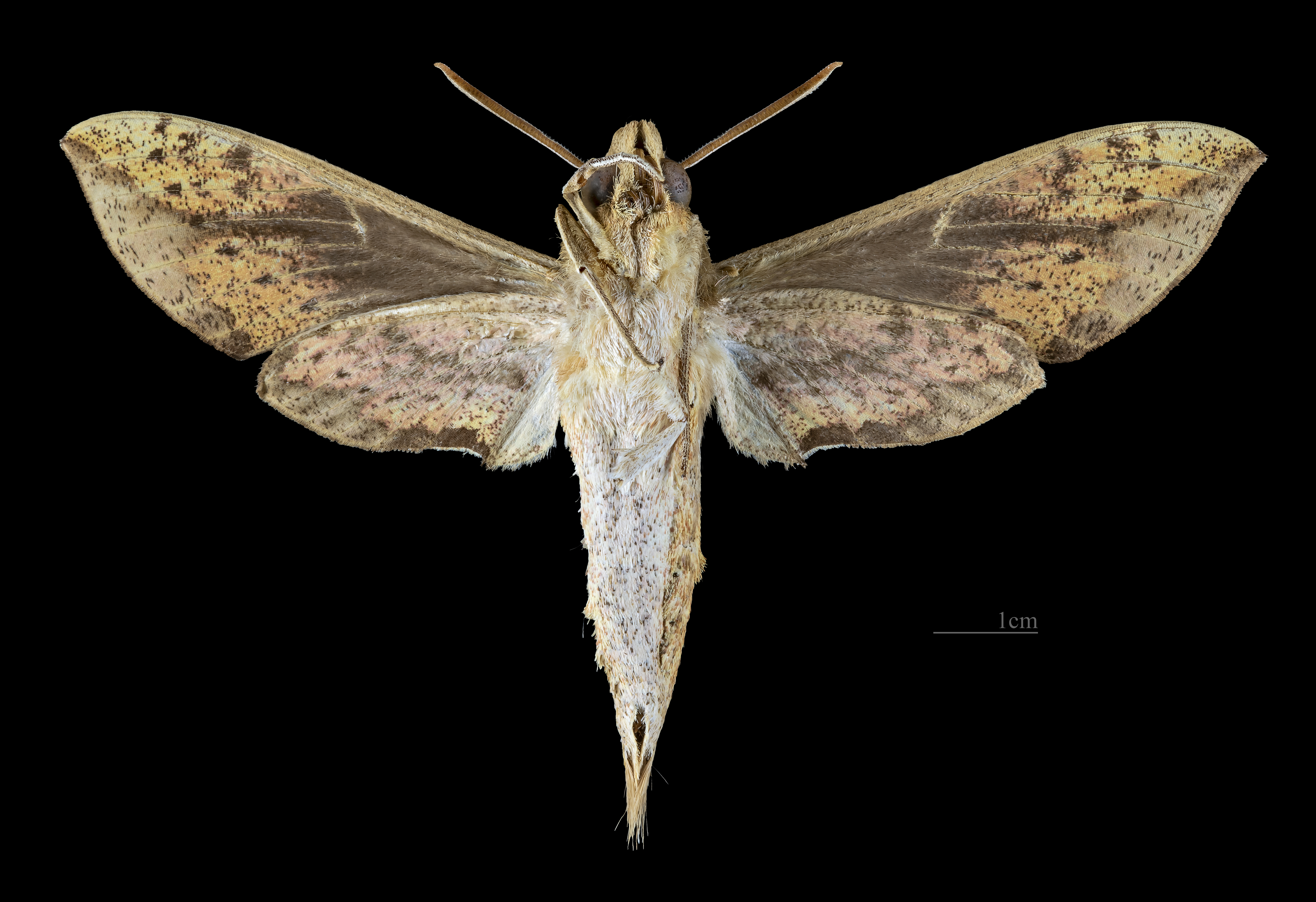 Xylophanes fosteri - △ Ventral side Collection of the Mathematician Laurent Schwartz